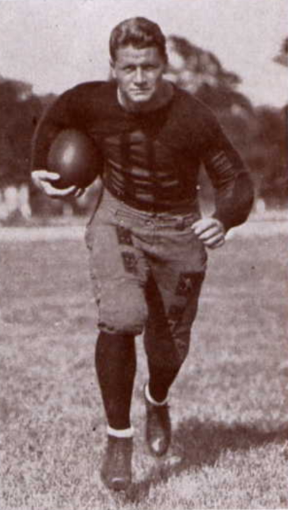 Photograph of Edgar C. Jones, LL.B. '26, from Jacksonville, athletic director of the University of Florida